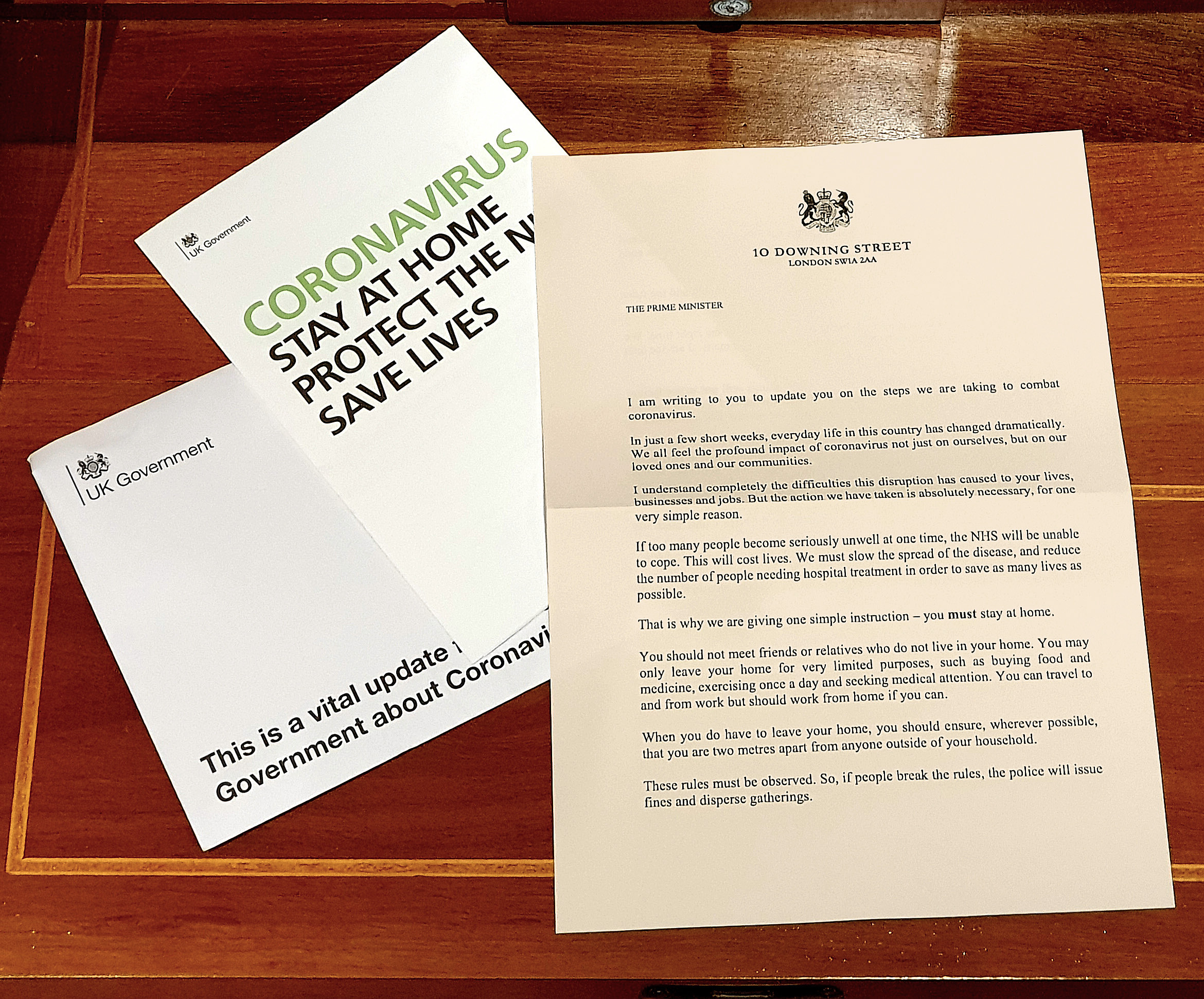 Official UK Government correspondence sent to every home in the United Kingdom during the Coronavirus pandemic. The envelope contained a letter from the Prime Minister, Boris Johnson, which told everyone to stay home except in certain circumstances. As well as a public information leaflet providing citizens with information about the Government's advice. This picture is the English version of the letter and leaflet. It was delivered by Royal Mail to every citizen in the UK. It was estimated to cost around £5.7 million, to reach all 30 million homes in the UK by the end of March 2020 and the beginning of April 2020.